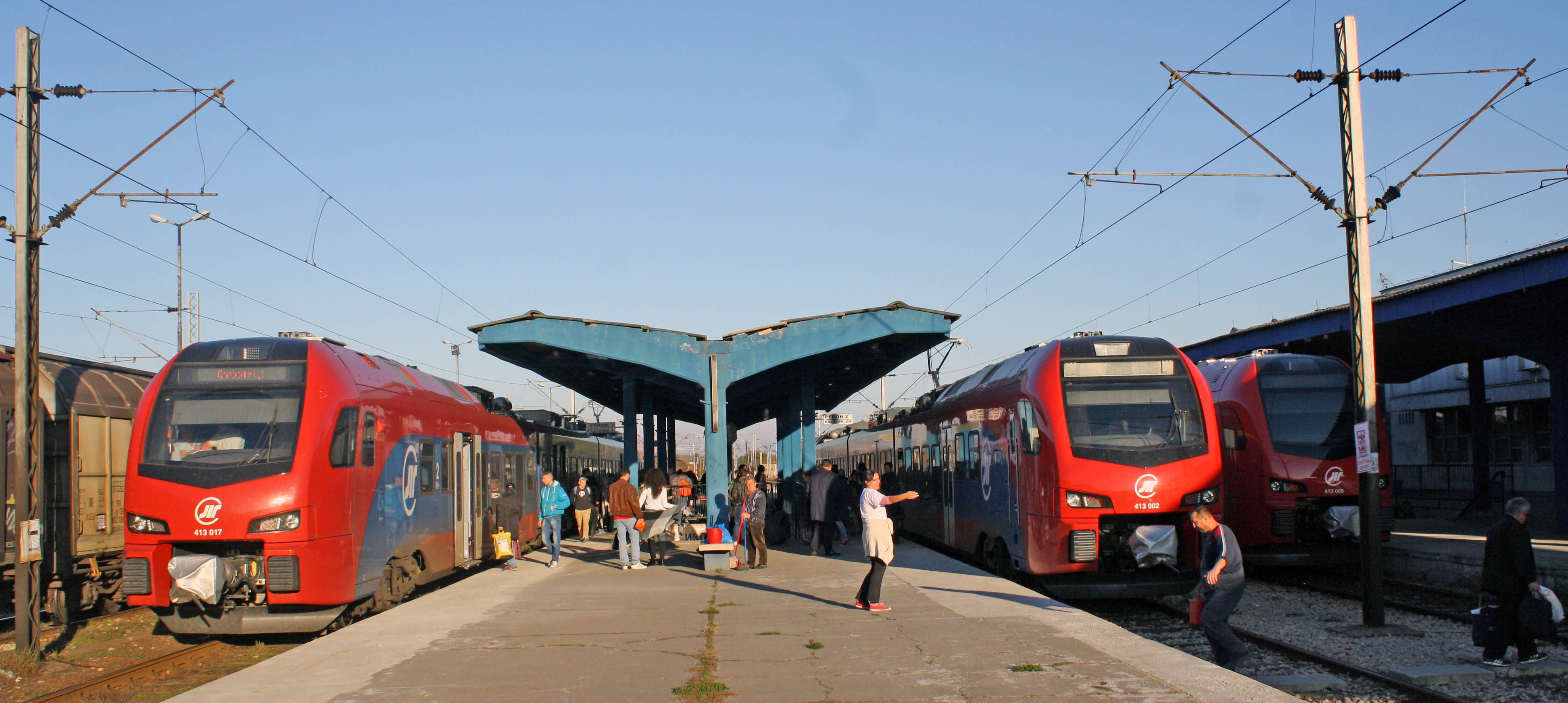 Тhree new Stadler FLIRT EMU of Serbian railways number at Novi Sad railway station.